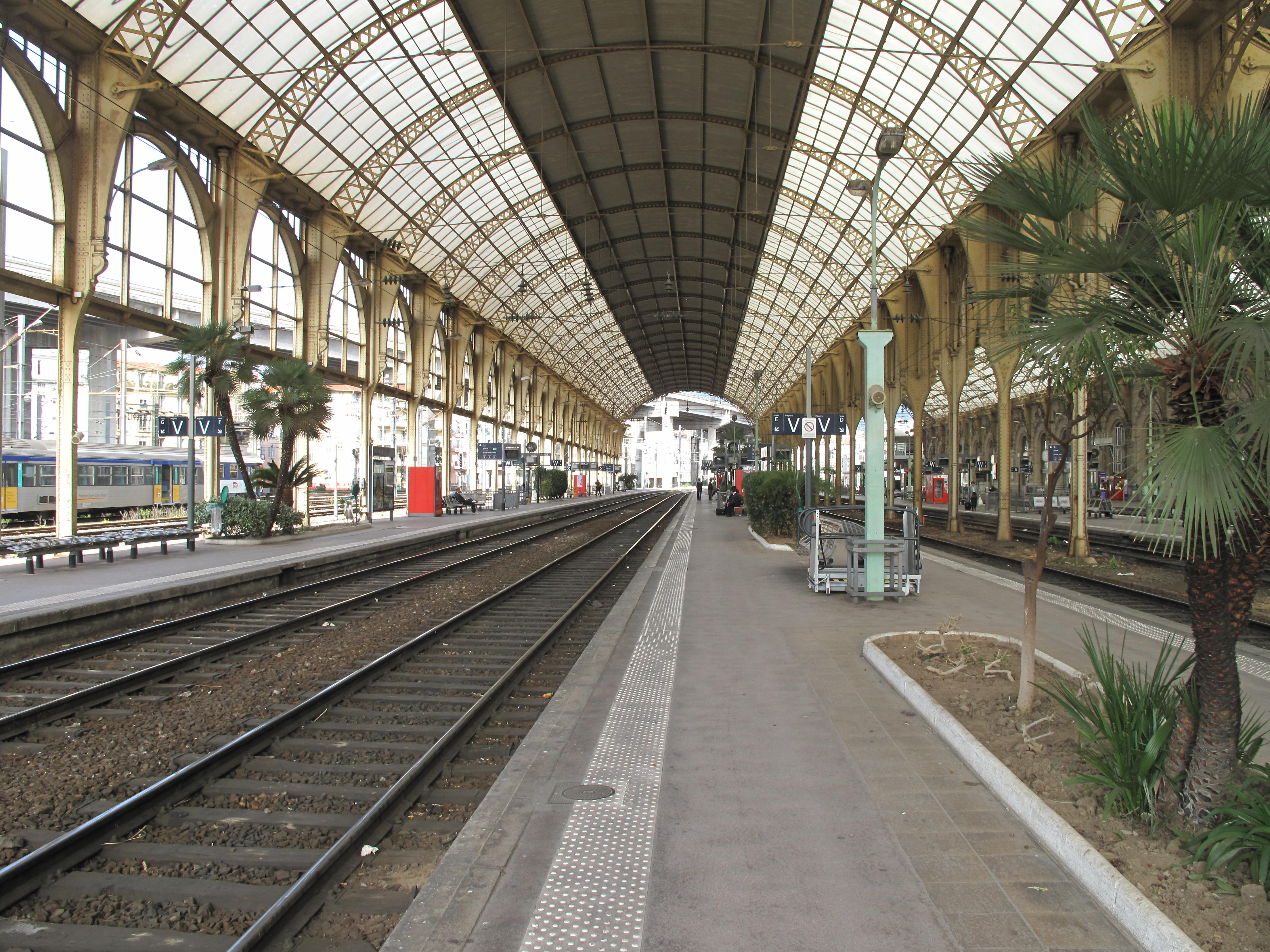 Transparent roof and platforms of the train station of Nice, France